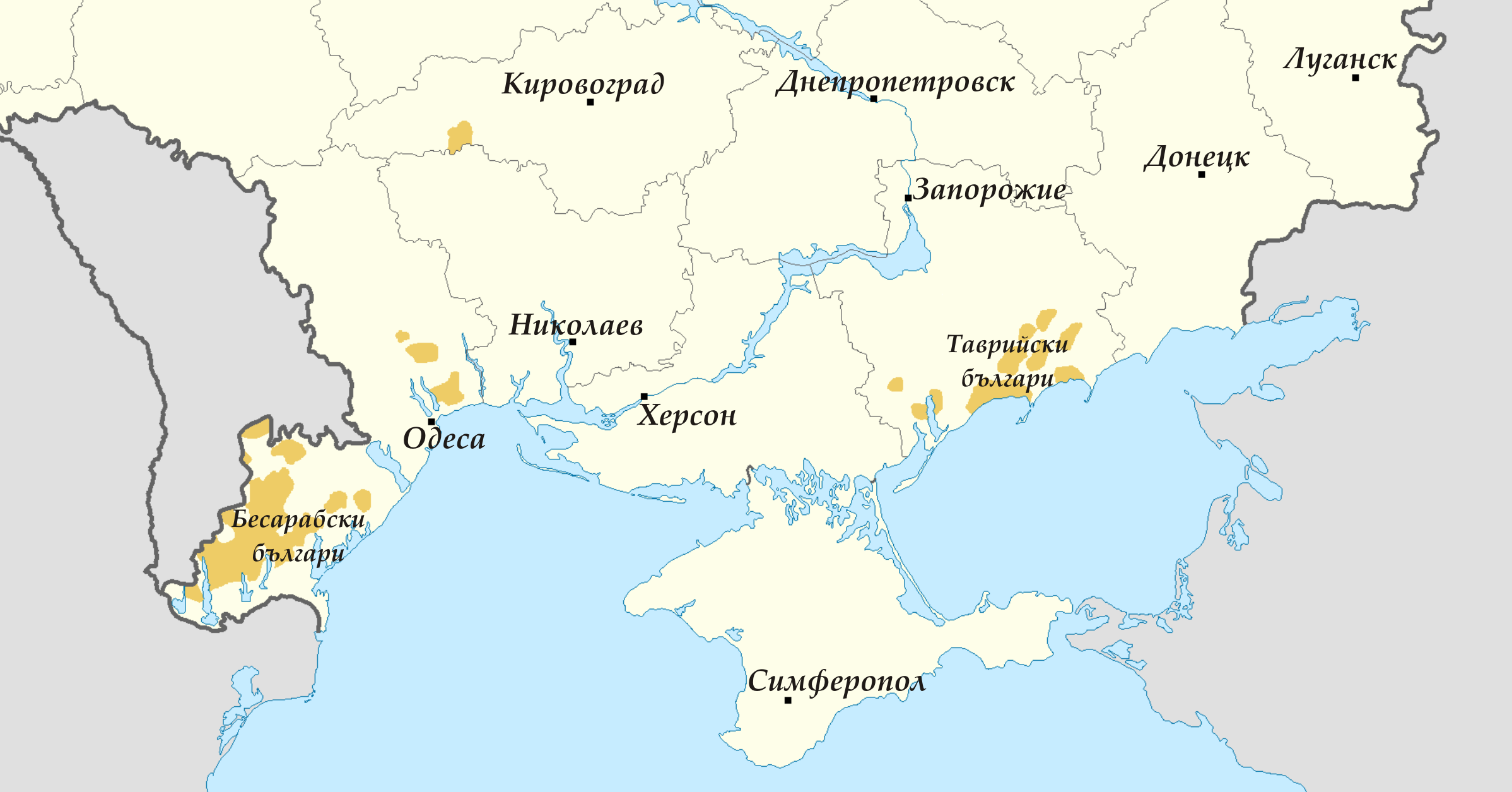 Maps shоwing Bulgarians in Ukraine